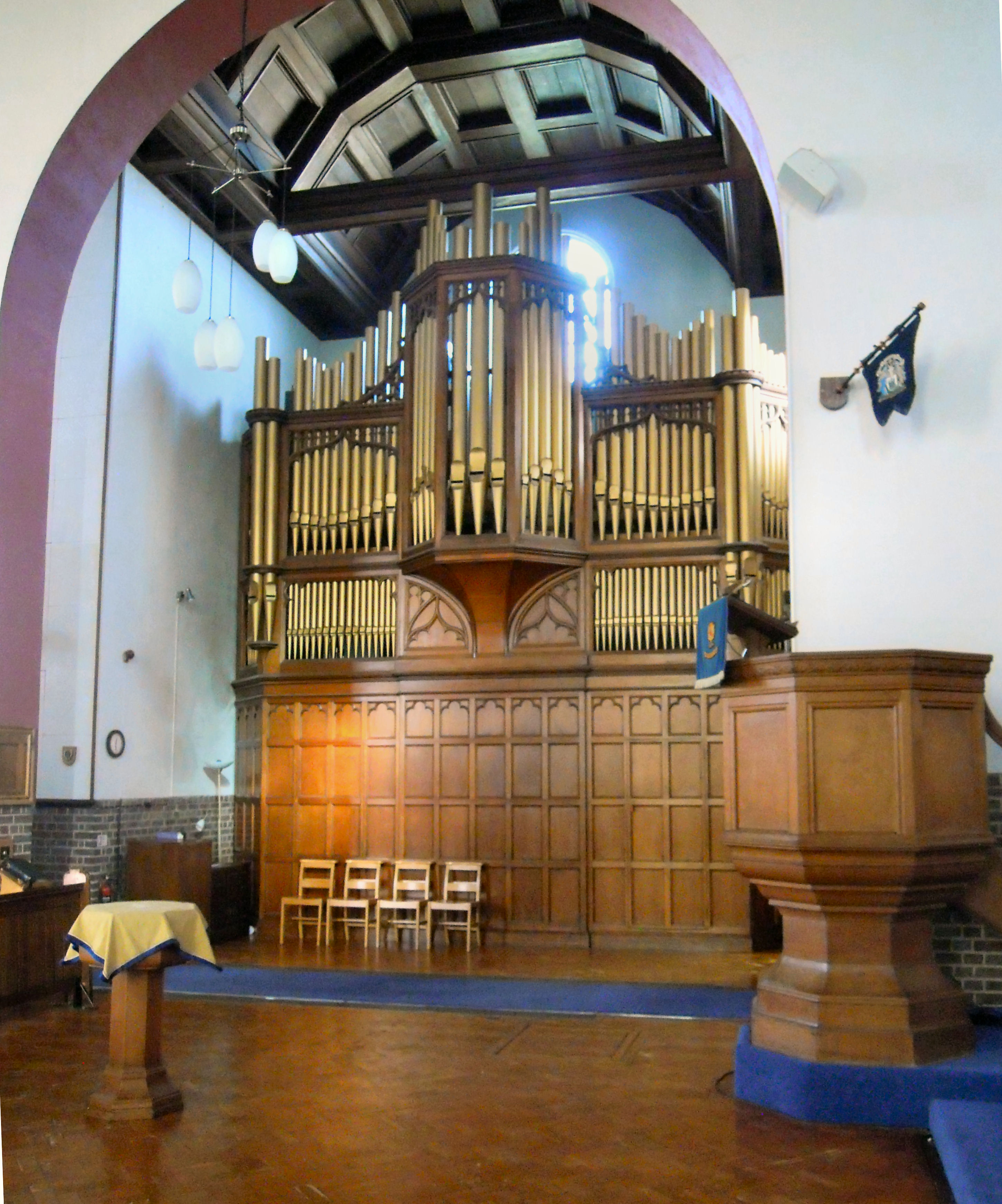 The 1897 organ in St Andrew's Garrison Church in Aldershot in Hampshire